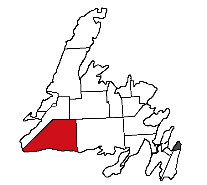 Electoral district of Burgeo-La Poile: Map based on work by Earl Andrew, from maps used in 2007 election